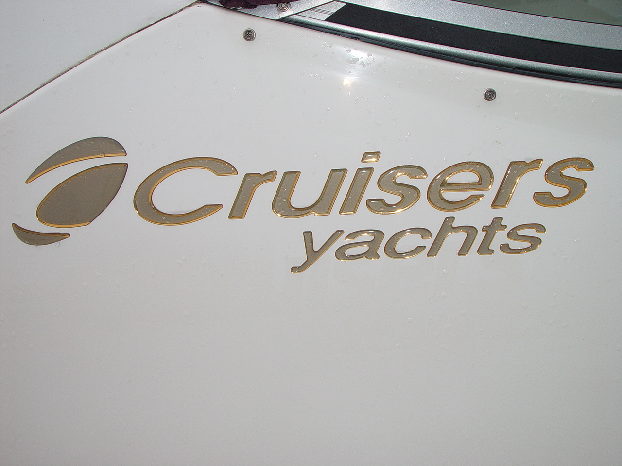 Close-up shot of the Cruisers Yachts logo.